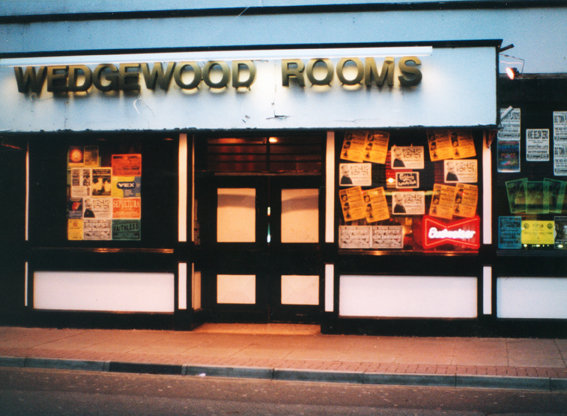 Entrance to The Wedgewood Rooms circa 1996